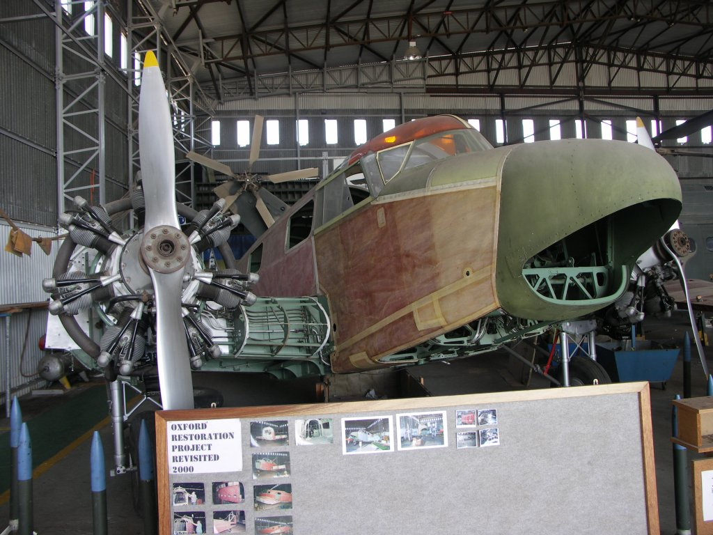 Airspeed Oxford restoration at SAAF Museum, Port Elizabeth.